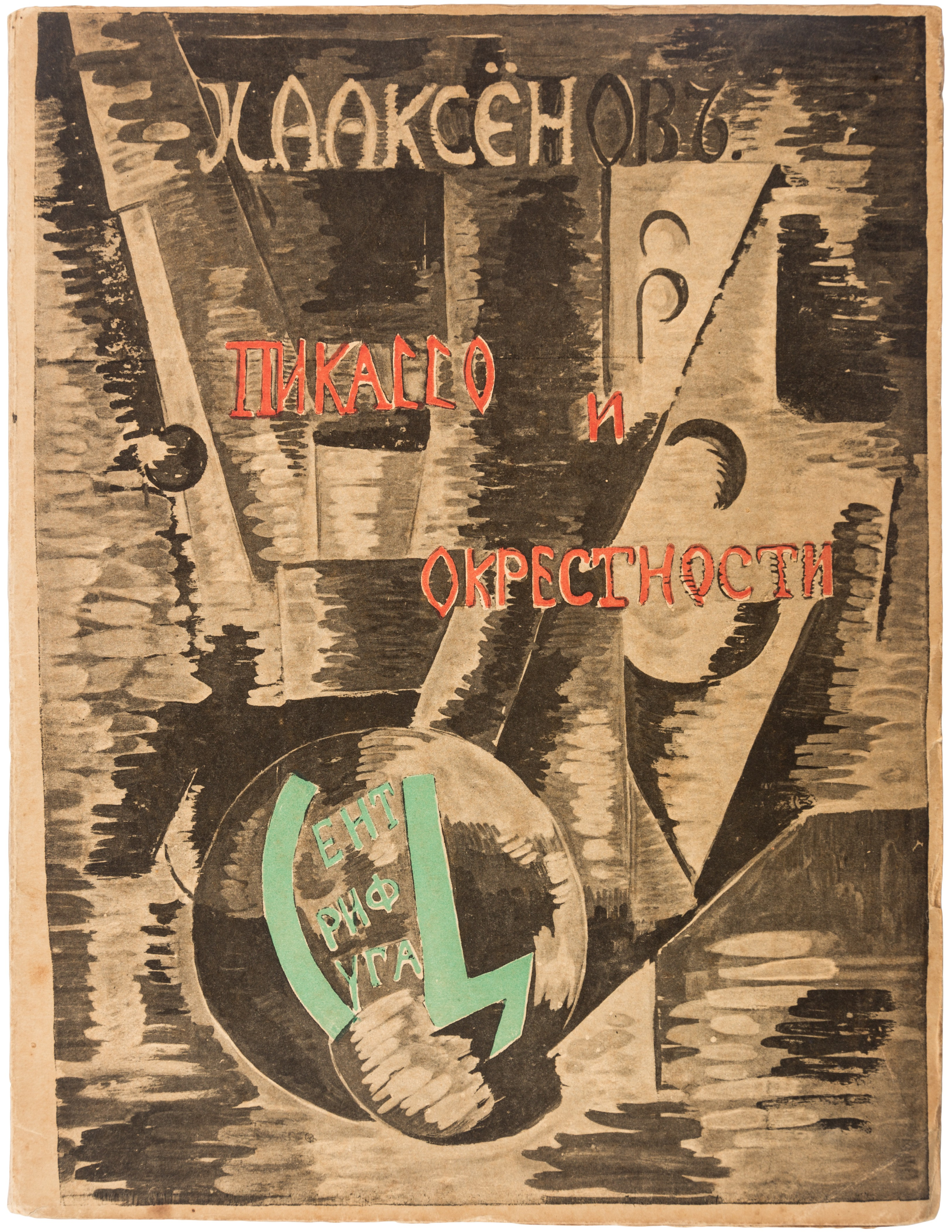 Alexandra Exter, 1917, Pikasso I Okrestnosti (Picasso and Environs), Moscow, Tsentrifuga (cover design). Пикассо и окрестности. С двенадцатью меццотинтогравюрами с картин мастера.